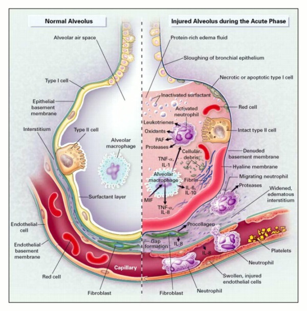 The normal alveolus (Left-Hand Side) and the injured alveolus in the acute phase of acute lung injury and the acute respiratory distress syndrome (Right-Hand Side)